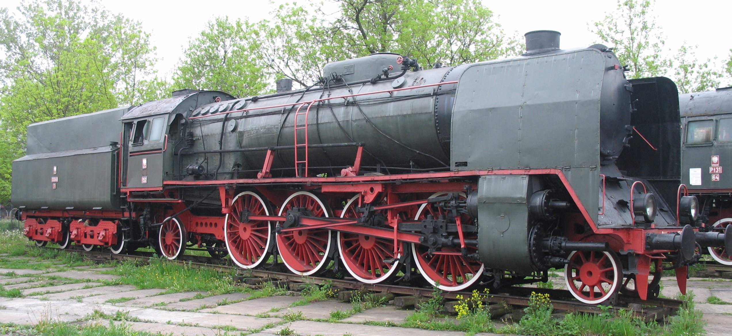 Polish express locomotive Pt47-152. The railway museum in Chabówka, Poland